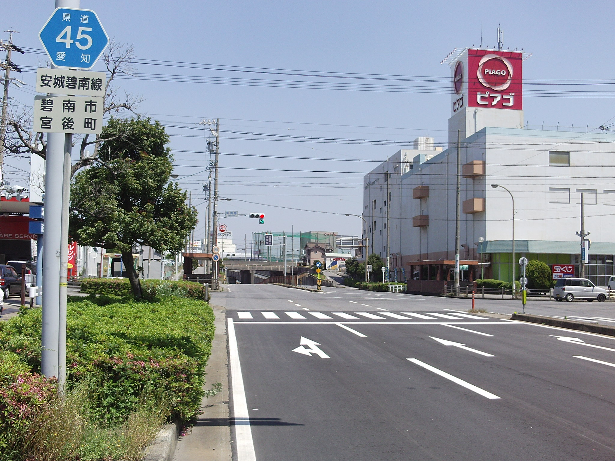 Aichi prefectural road No.45 in Miyagomachi, Hekinan, Aichi.